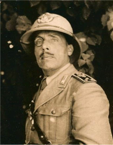 Portrait of the General Pentimalli (1884–1953) (late 30s of XX century). This image is in the archive of the family that allowed the publication.